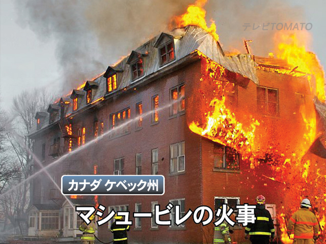 A Japan television news program simulation image.